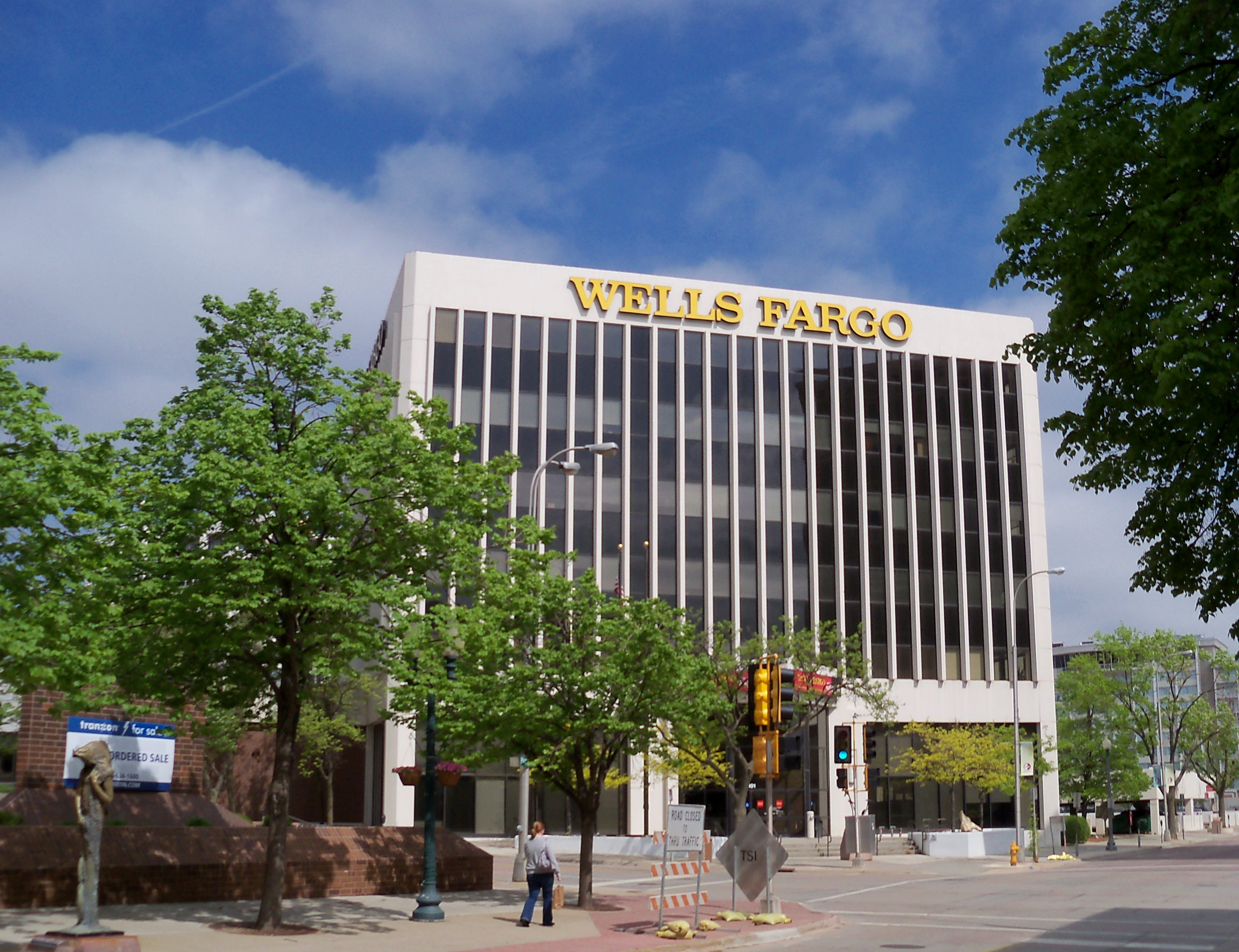 Wells Fargo Bank in Sioux Falls, South Dakota, USA.